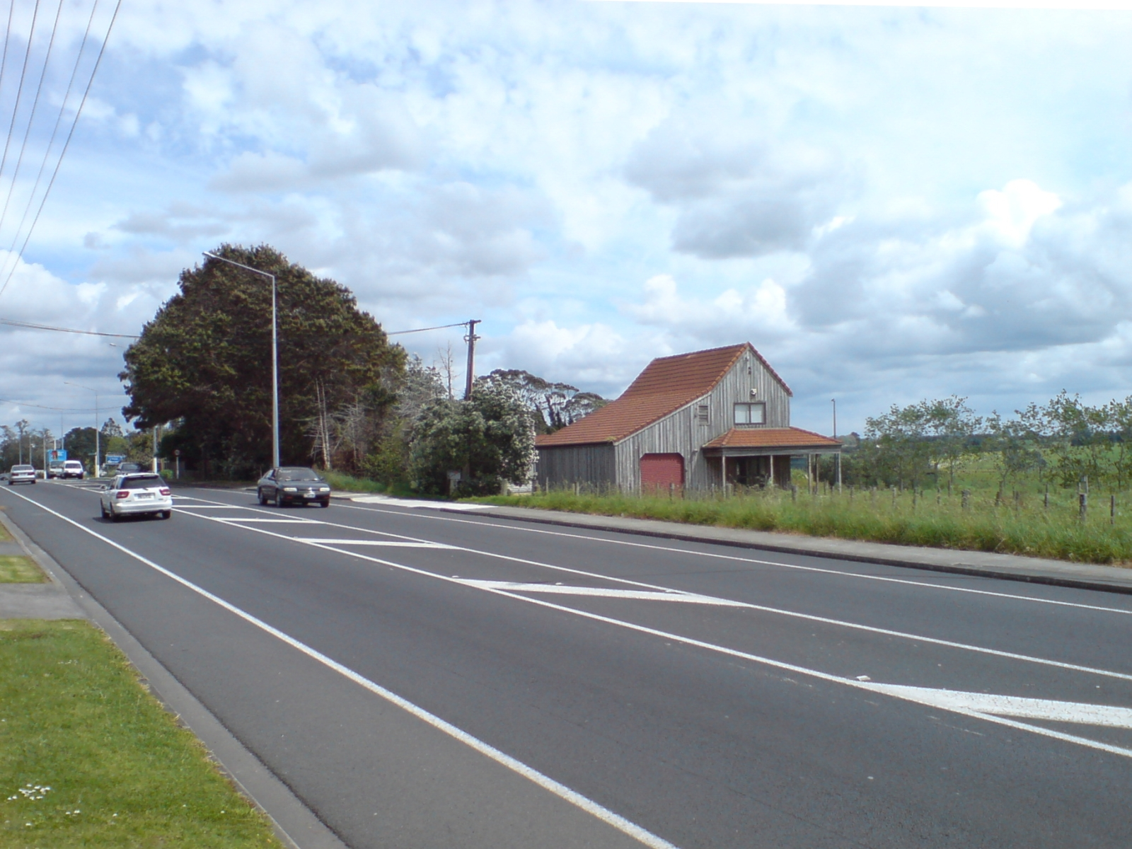 House along Hobsonville Road, Waitakere City, New Zealand. The area is slowly suburbanising, and the rural character exemplified by the older houses is disappearing. Case in point: just to the left of the picture is a new subdivision.